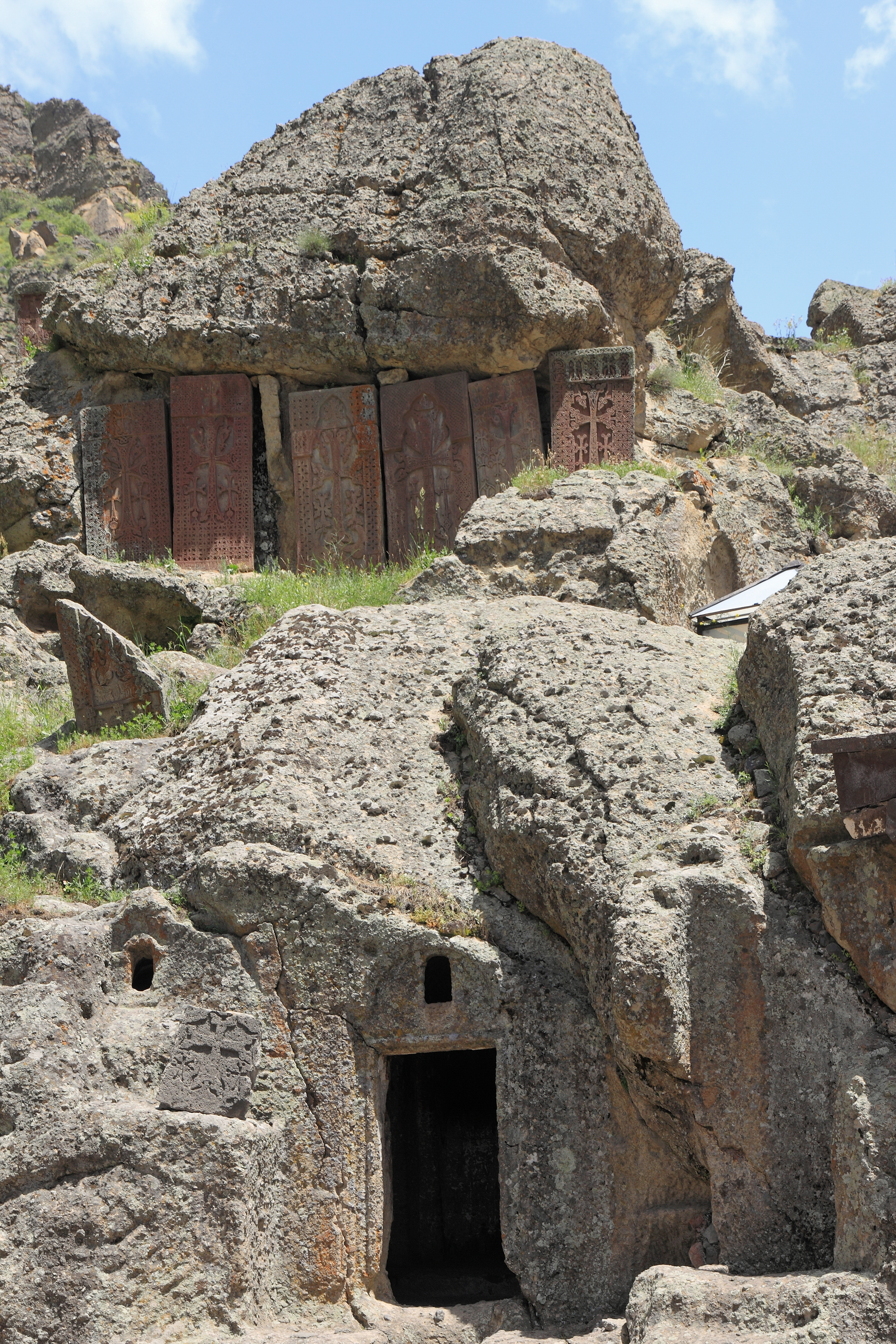 Chapel in the rock. Geghard monastery. Kotayk Province, Armenia.